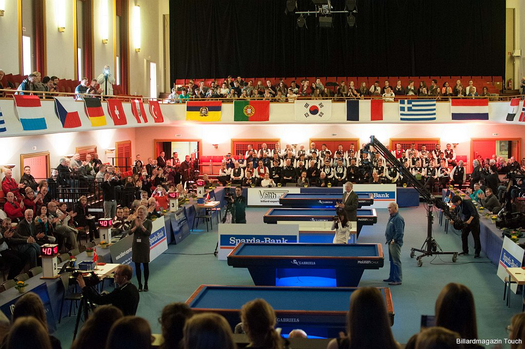 see file name